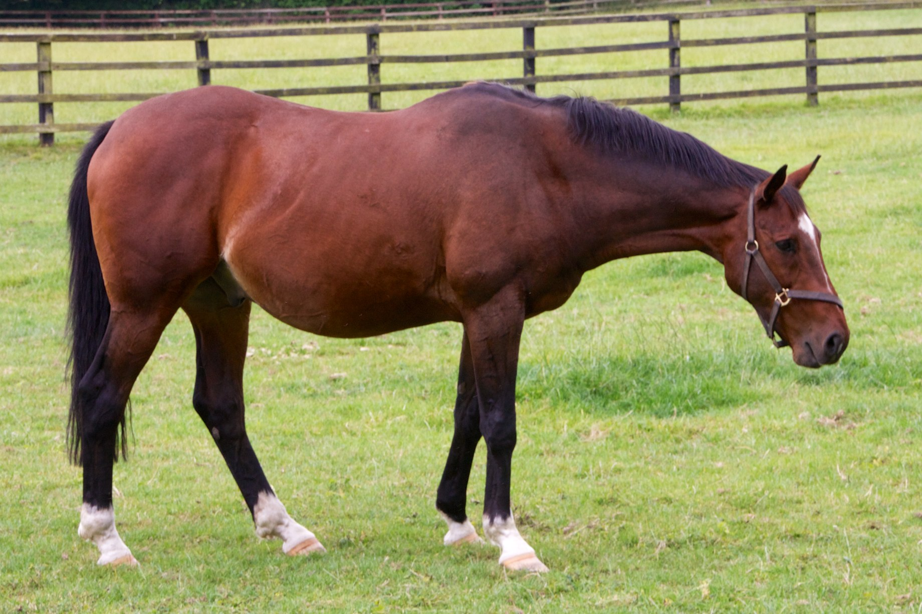 National Hunt gelding Moscow Flyer in retirement at Irish National Stud in 2013.